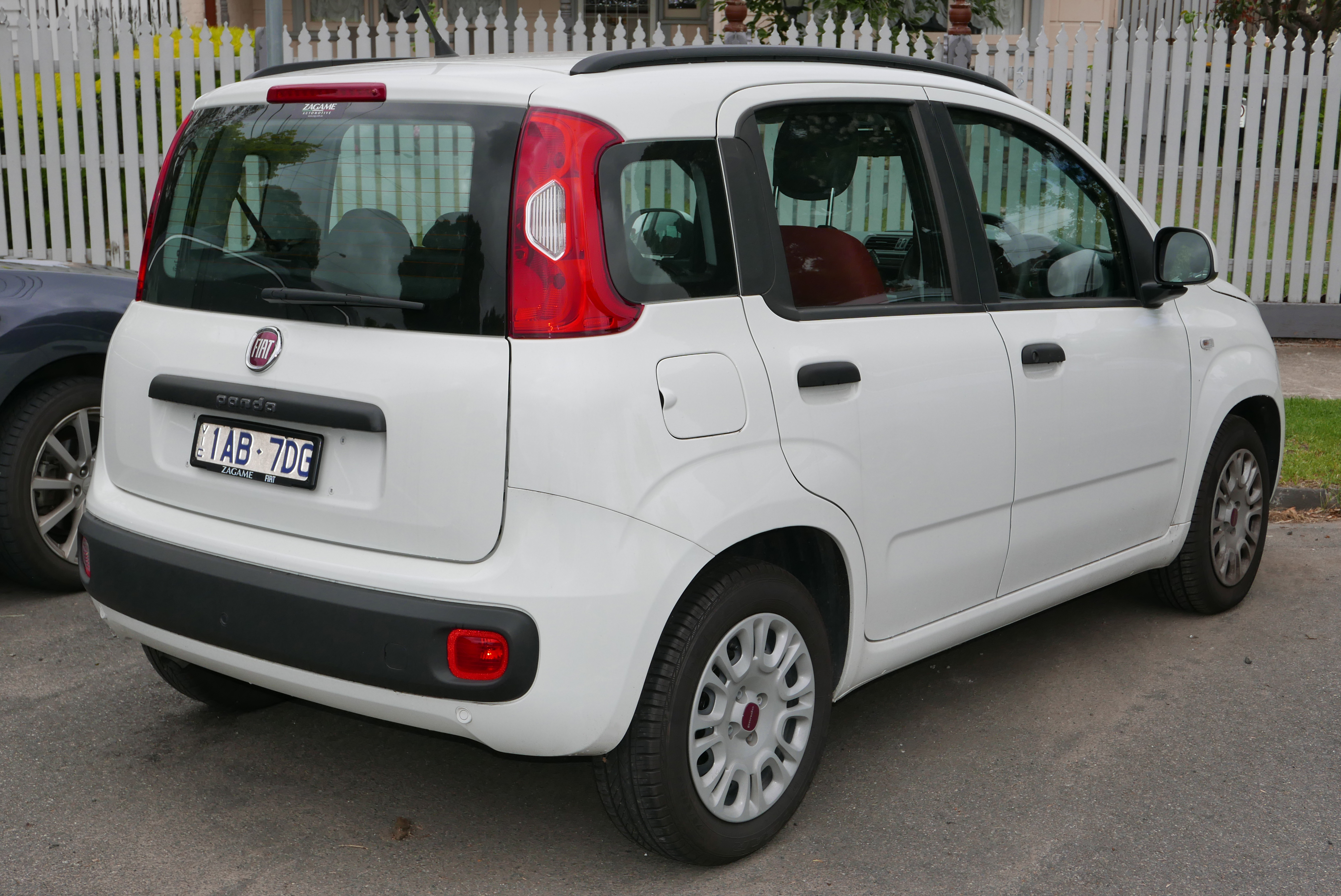 2013 Fiat Panda Easy hatchback. Photographed in Fitzroy North, Victoria, Australia. Vehicle registration enquiry results Jurisdiction Victoria Registration 1AB7DG Chassis code ZFA31200003204441 Engine code 312A20000167611 Compliance date 2013-10 Year of manufacture 2013